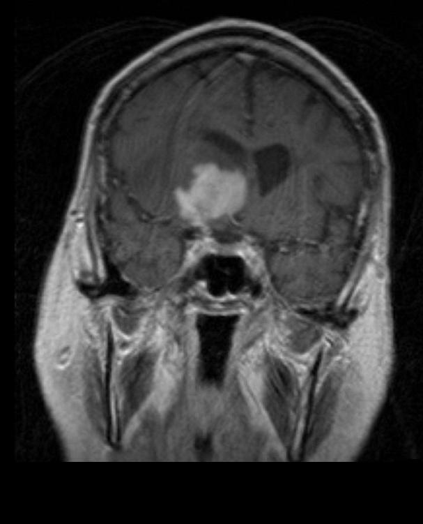 Primary CNS Lymphoma, MRI, T1 coronal